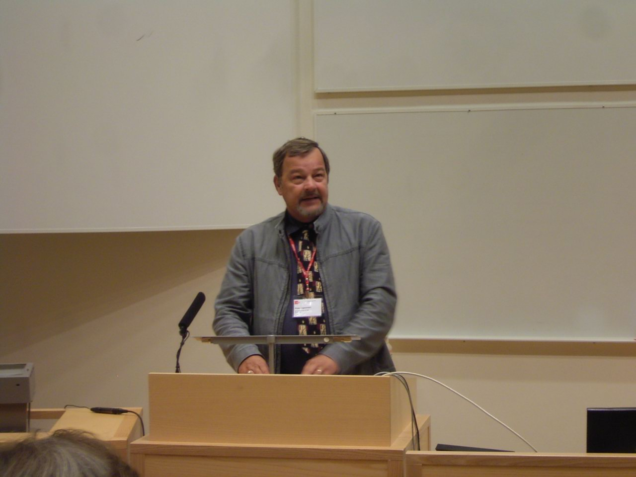 Peter Ingwersen at the 10th International Conference of the International Society for Scientometrics and Informetrics (ISSI2005)